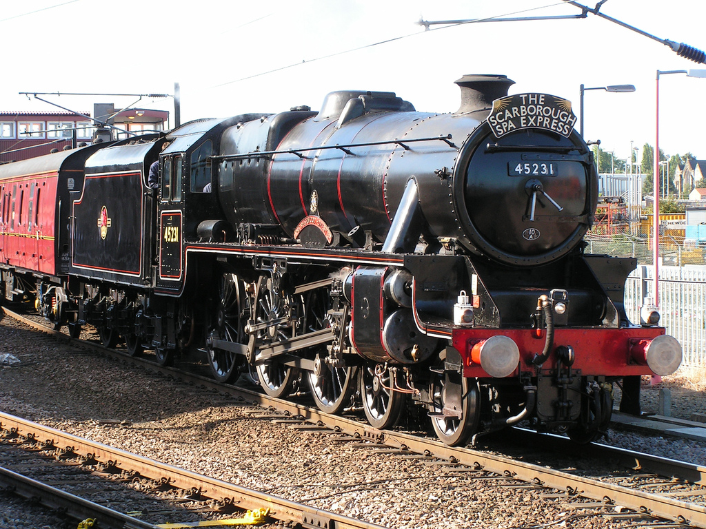 Black 5 (45231) leaving York with the Scarborough Spa Express, on the first leg. This first leg would be the trip round to Harrogate and Leeds. August 2007.